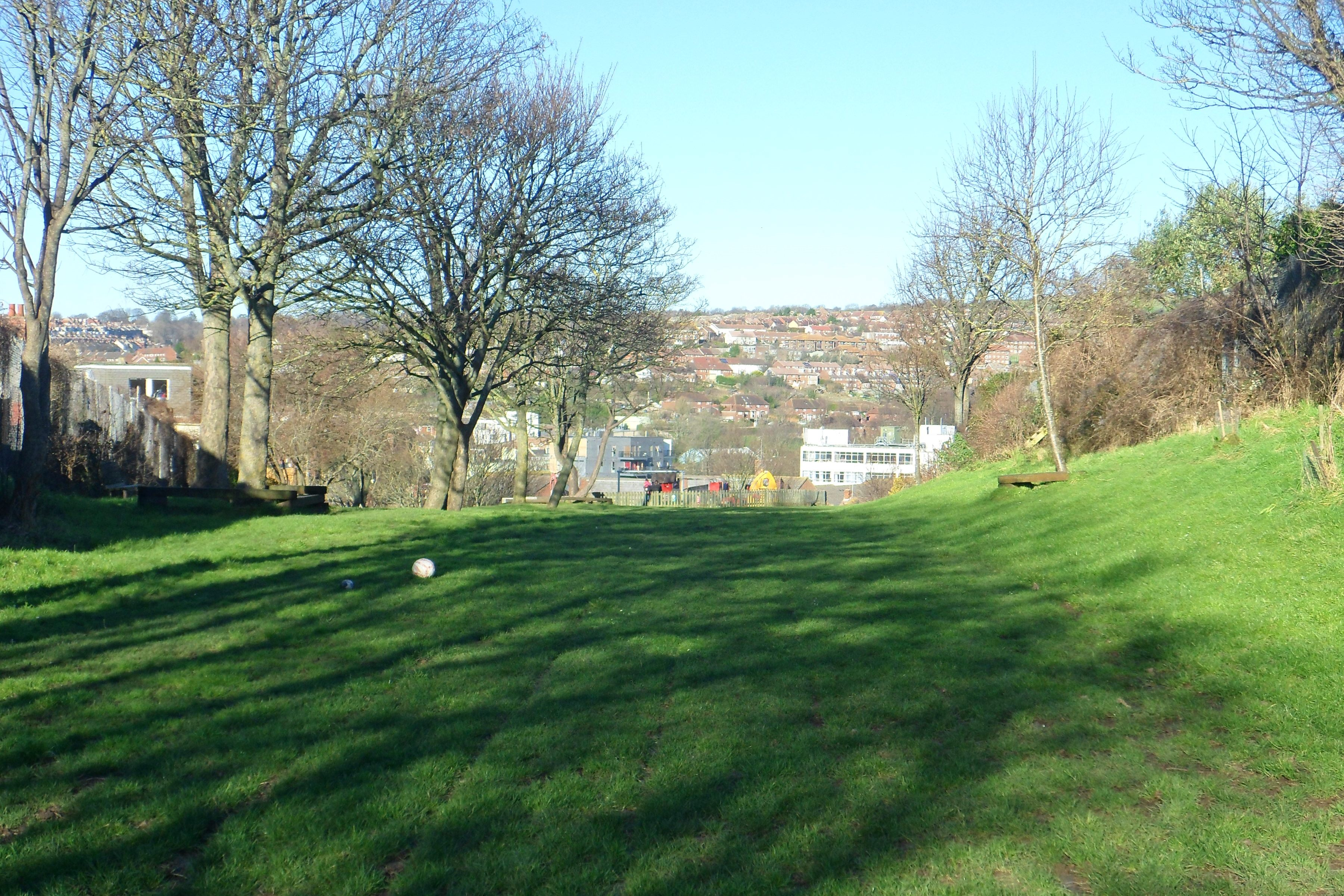 William Clarke Park, Hartington Road, Elm Grove, Brighton, City of Brighton and Hove, England. A long, narrow linear park which occupies the cutting of the former Kemp Town Branch Line between the former Hartington Road halt and the northern entrance to the tunnel under Elm Grove. The land is now at a much higher level than the railway line was: the cutting was filled in after the line closed in the 1970s. Just behind the yellow object is a roof; this belongs to Old Viaduct Court, built on the site of a viaduct which crossed Hartington Road. The halt of that name was on "this" side of the viaduct. The former tunnel entrance would have been a short distance behind the camera, but it no longer survives. William Clarke was a former Mayor of Brighton who campaigned for this open space to be created.